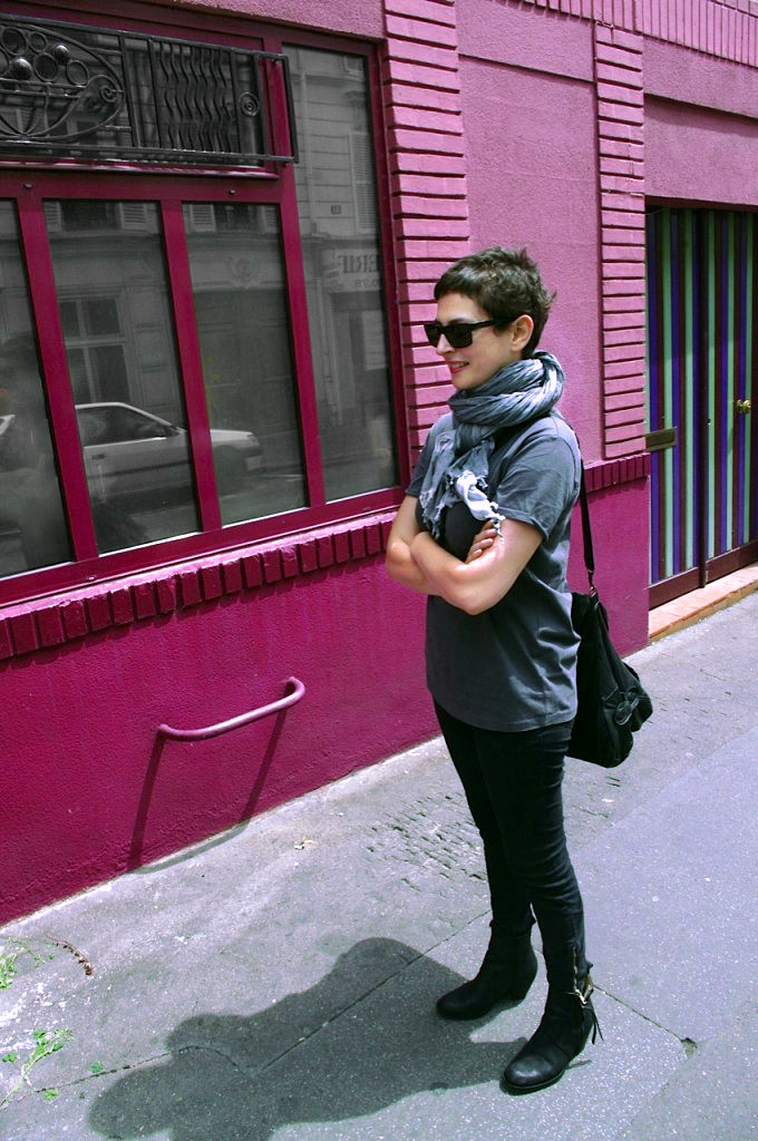 Kate Zambreno in front of pink house, from The Rumpus.